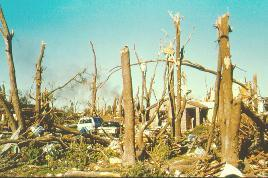 Damge from the 1991 Andover tornado